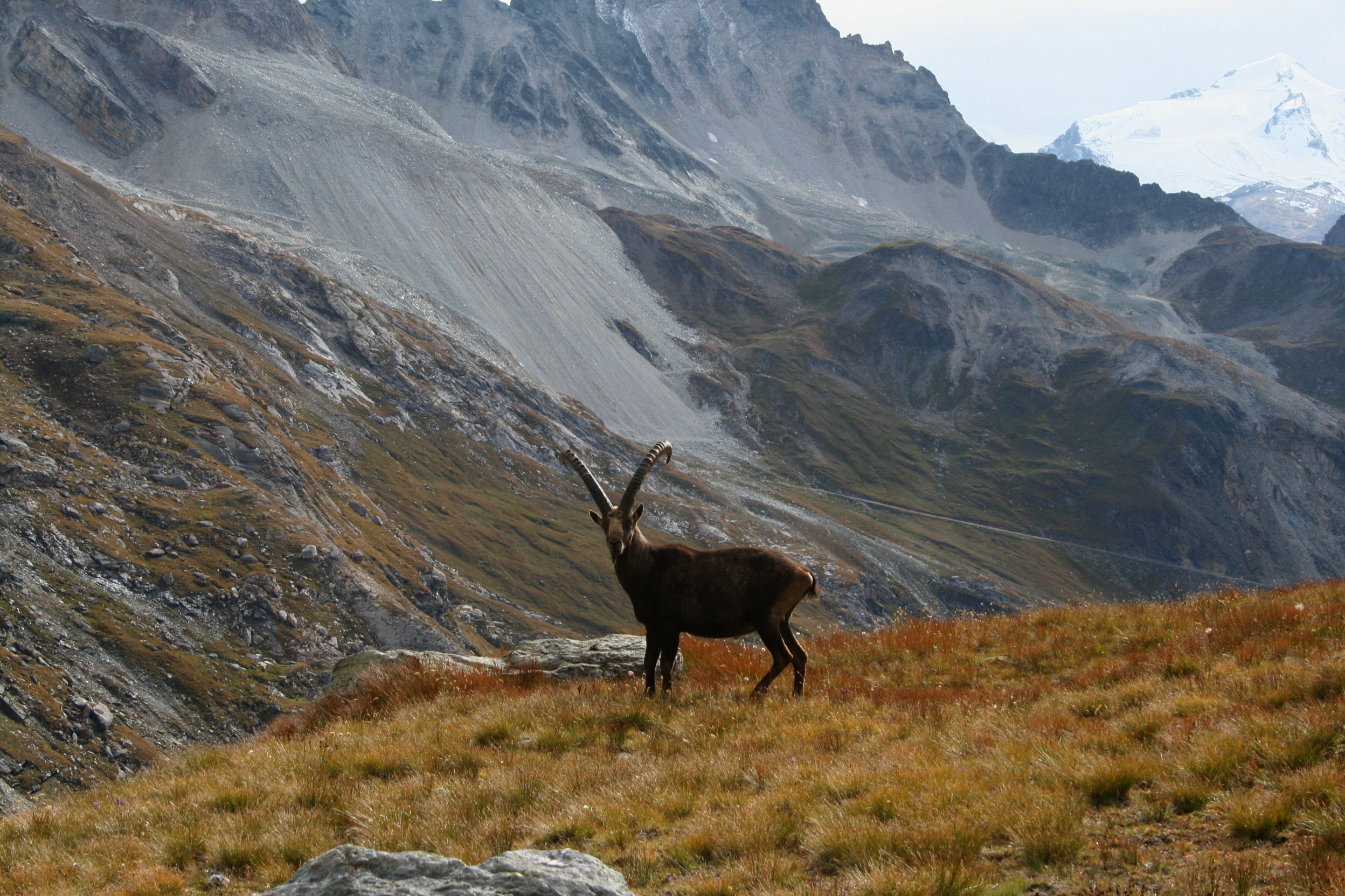 Template:Adult male ibex in Savoy, one of the two remaining places where the population survived from extinction at 3000 meters high